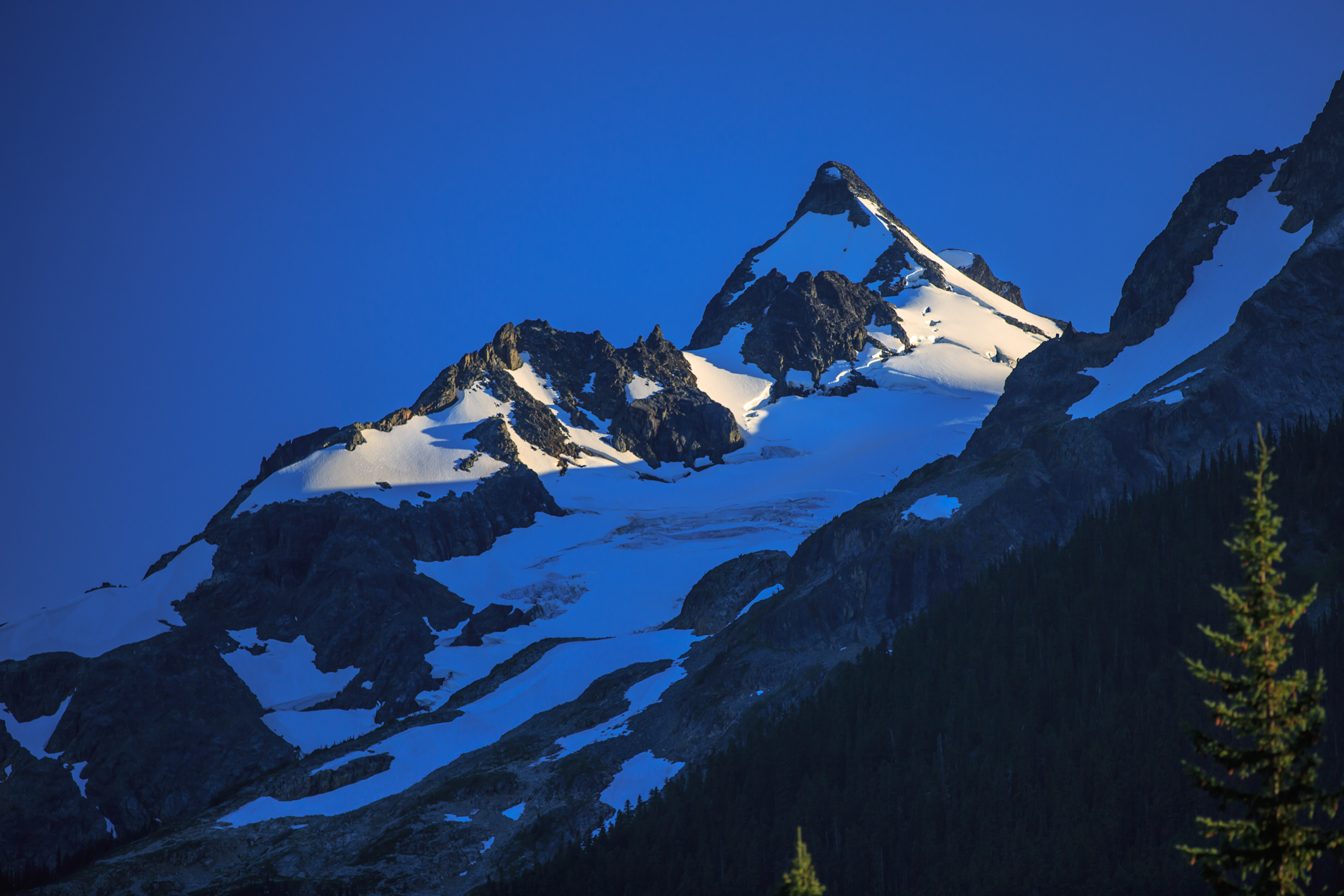 Mt Matier